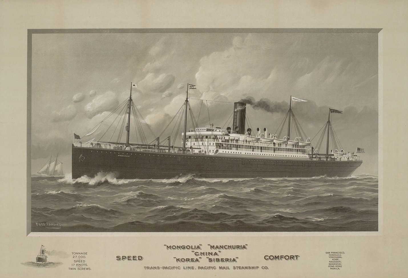 The SS Mongolia — one of the largest and fastest ships of the Pacific Mail Steamship Company . This poster advertises the services of the company.